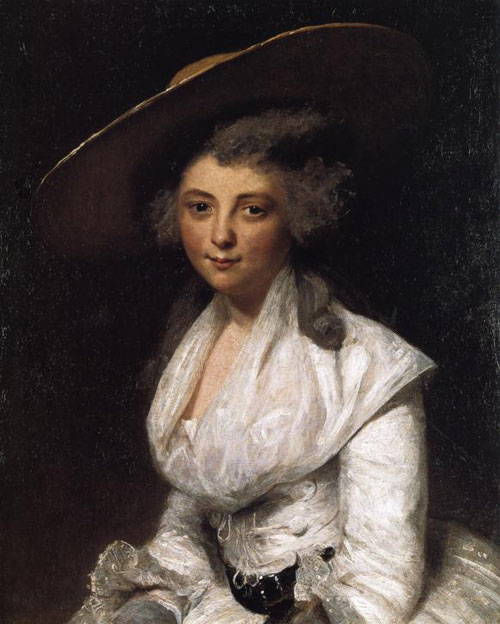 Print of a painting done by Joshua Reynolds in 1786 of the Hon. Anne Bingham, daughter of Charles Bingham, 1st Earl of Lucan. When he became the Earl her title became Lady Anne Bingham. Her sister, Lady Lavinia Bingham, married the 2nd Earl of Spencer. The original painting of the Hon. Anne Bingham by Joshua Reynolds is still owned by the Spencer family. (Subject should not be confused with Ann Willing Bingham of Philadelphia.)